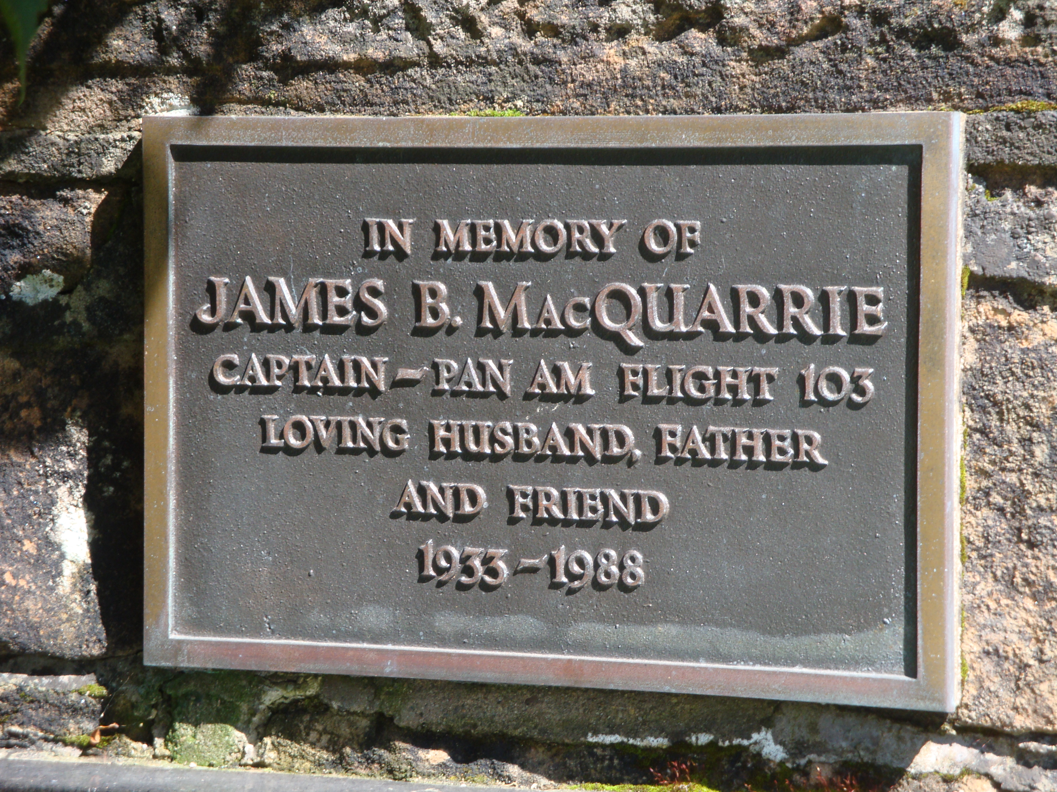 Memorial stone of the aircraft disaster at Lockerbie